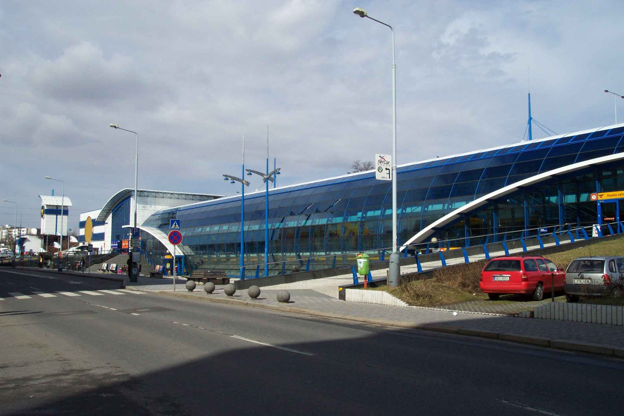 Metro station Rajská zahrada, Prague, CZ